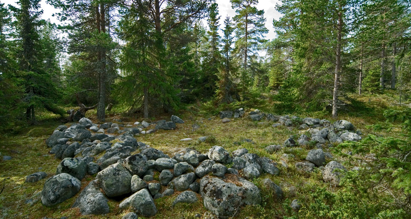 Remains of fishers' and seal hunters' hut (late iron age) at Bjuröklubb, Västerbotten county, Sweden. Bones of brown bear has been found inside the stone ring.